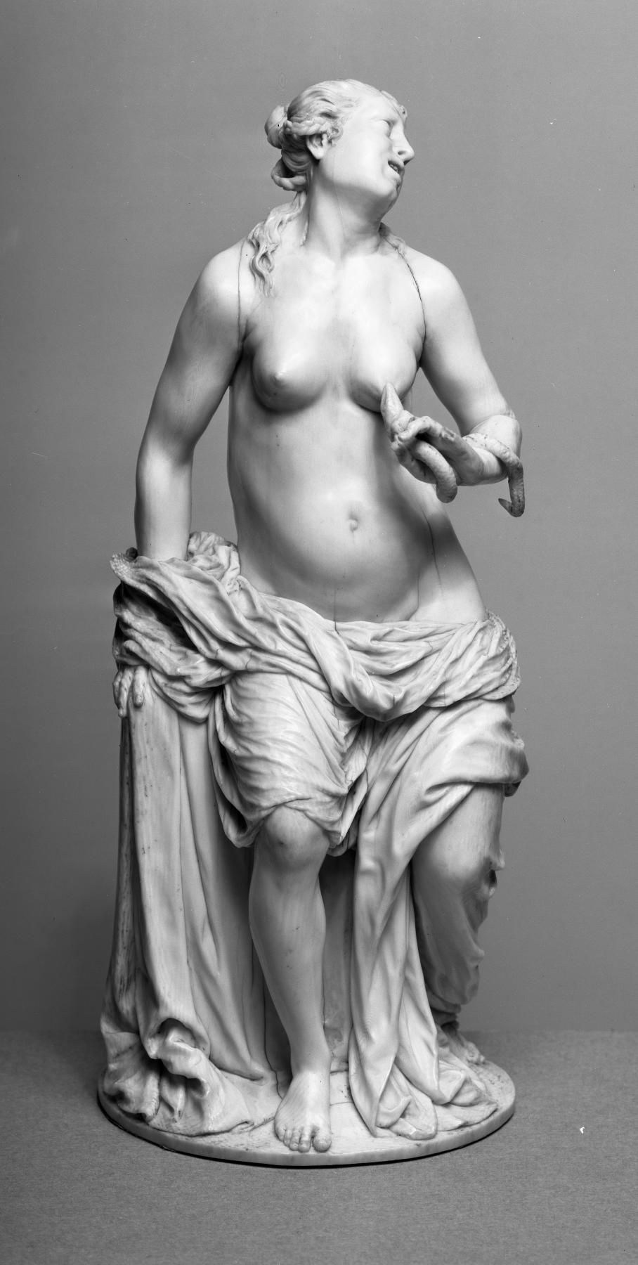 Queen of Egypt (51-30 BC) and celebrated for her seductive beauty, Cleopatra is depicted taking her own life with the bite of a poisonous serpent. Writhing in pain, she embodies the baroque taste for plump female beauty and intense emotion. Ivory's unique appeal to the sense of touch helps to convey the vulnerability of her flesh. The piece is signed with the monogram of Adam Lenckhardt, renowned across Europe for the naturalism of his works in ivory.